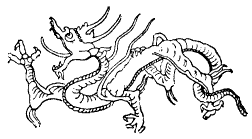 Japanese dragon